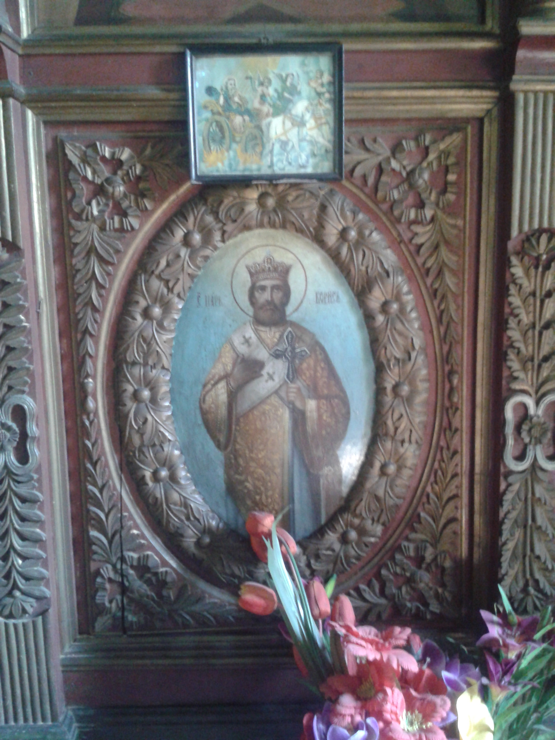 Saints Cyril and Methodius Church in Tarnovo - Detail of the Iconostasis 2